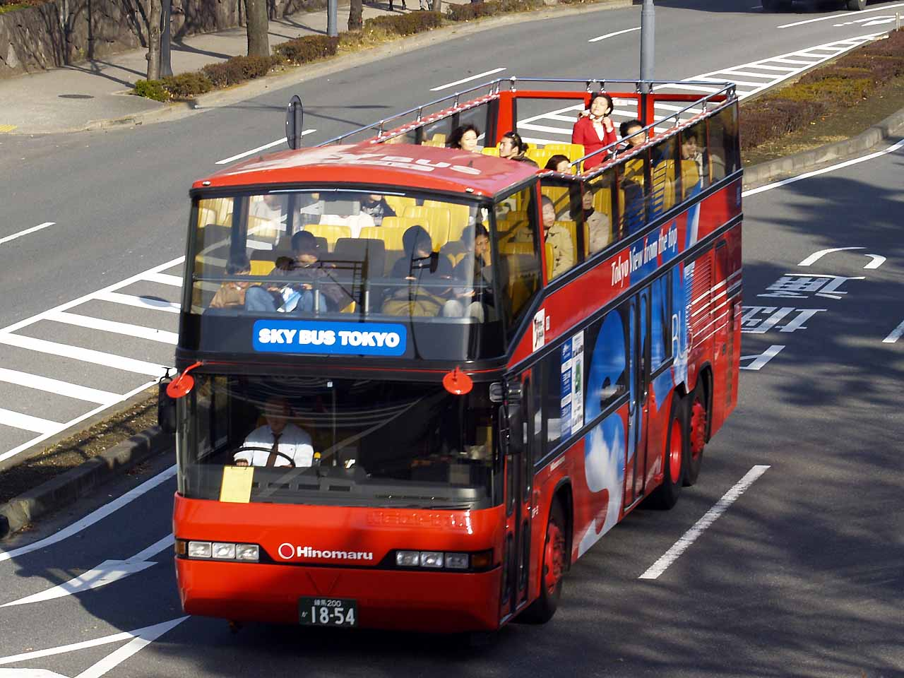 Fleet of Hinomaru Jidosha Kogyo, for "Sky Bus Tokyo" with birdview. Model: Neoplan Skyliner N 4026/3 License plate: TKN200 KA1854 ex. TKA22 KA4990(Toei Bus), TKN200 KA-380, TKN200 KA1667 aft TKN200 KA2685, TKN200 KA2692 Place: Kitanomaru Park, Chiyoda ward, Tokyo Japan